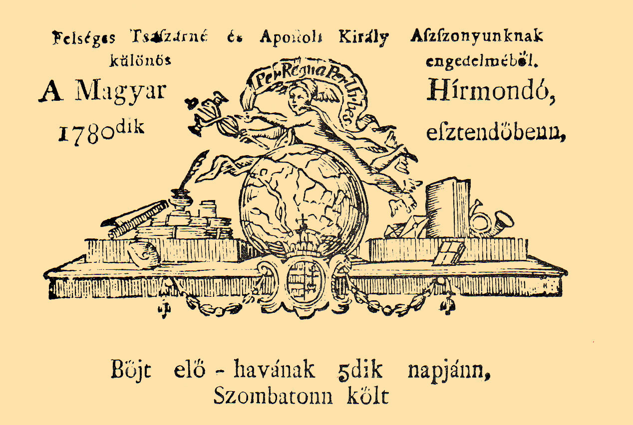 The first newspaper in hungarian language, 1780.